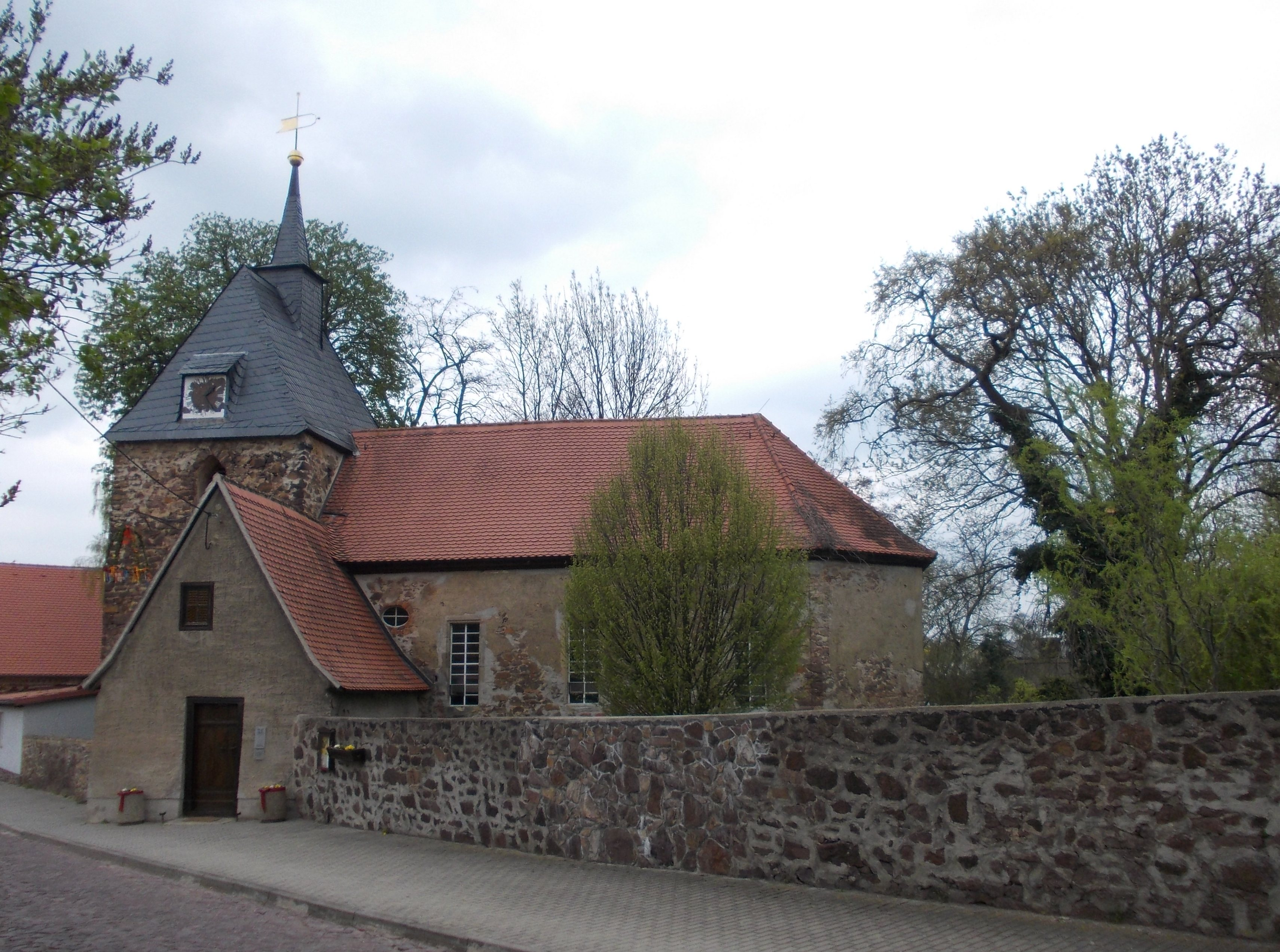 The church in Kütten (Petersberg/Saalekreis, Saxony-Anhalt)